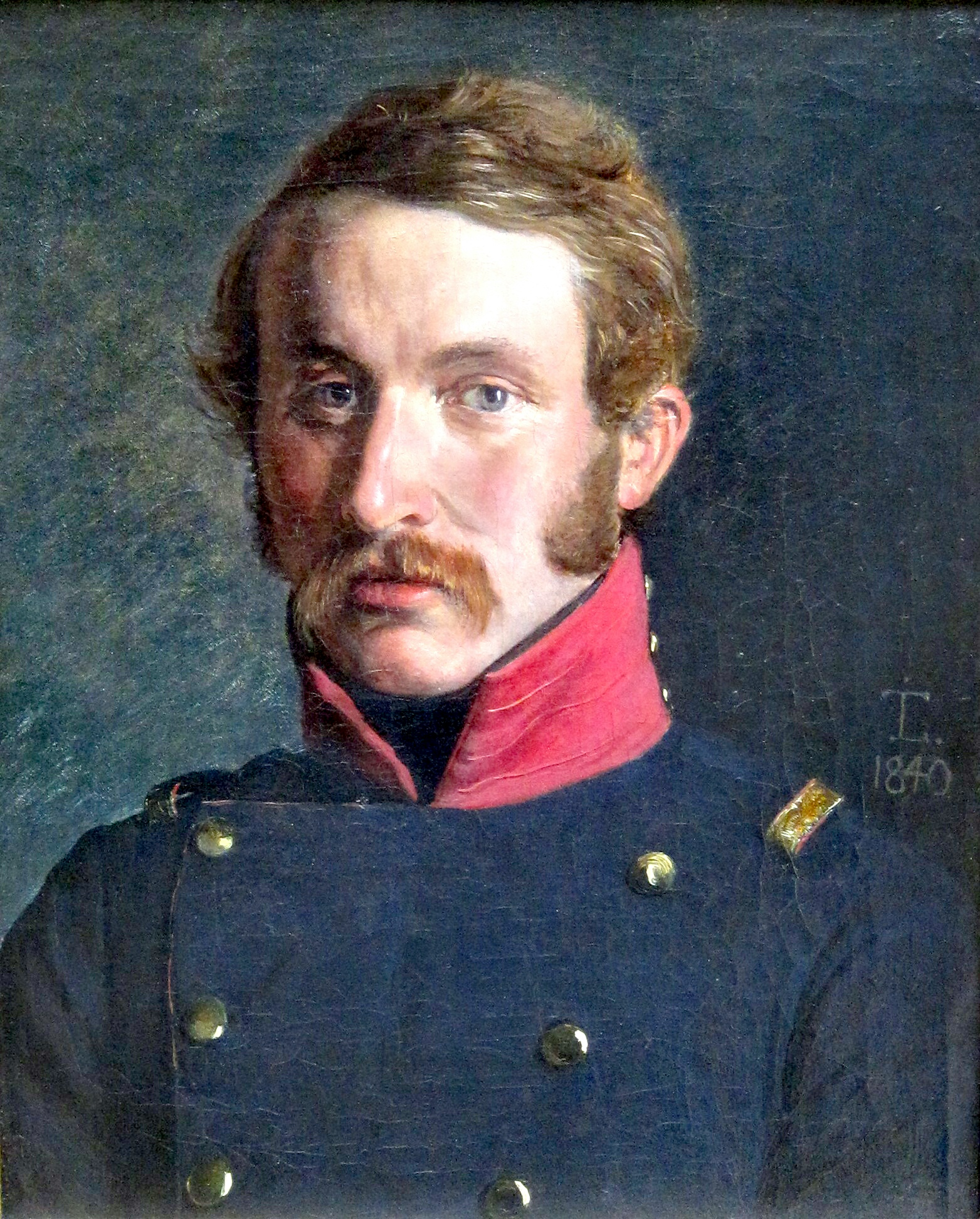 Carl Lundbye (1812-1873), Danish officer, politician and minister of war. Portrait painted by Lundby's brother, artist Johan Lundbye.